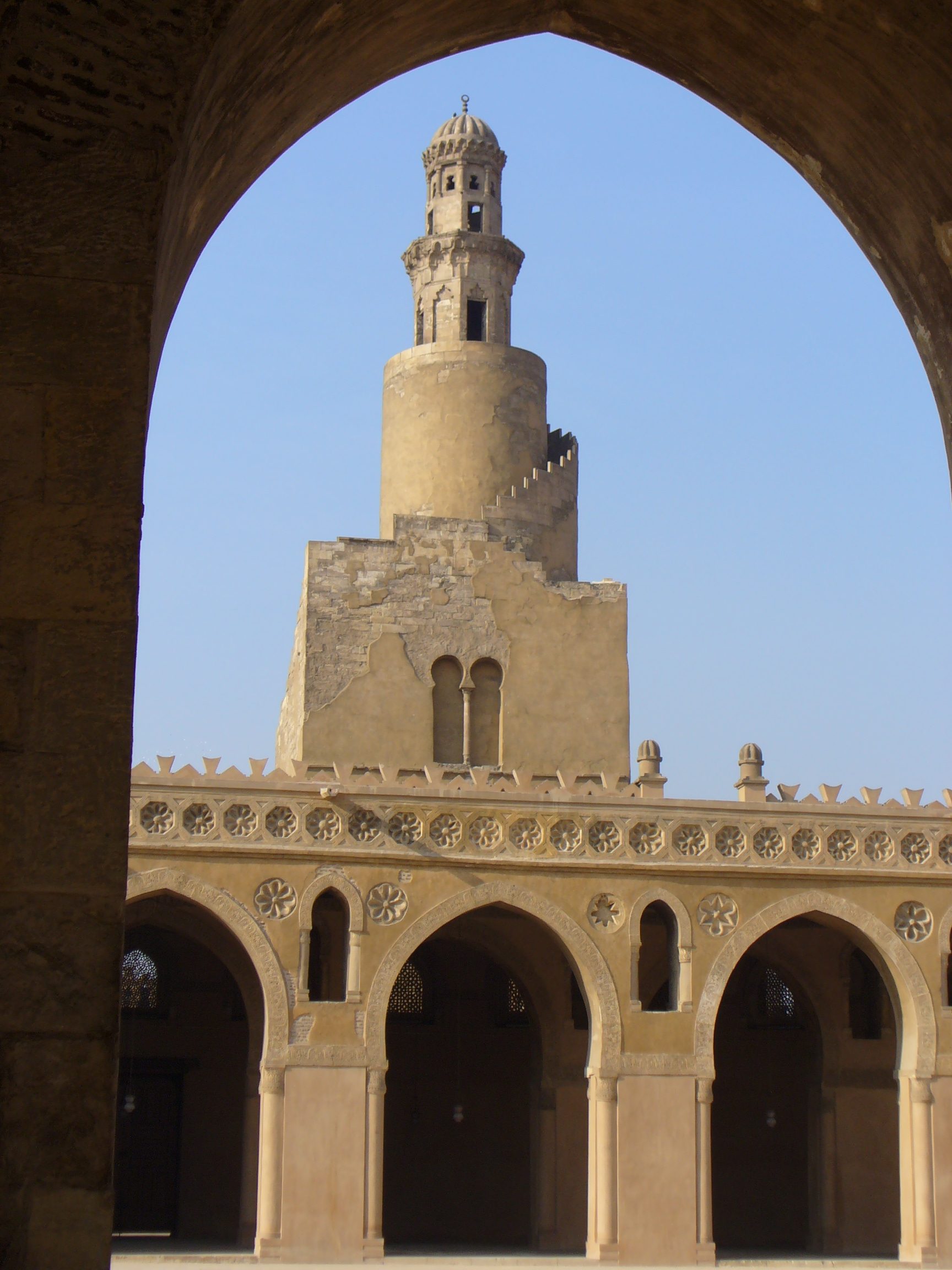 Egypt: Cairo: Mosque: Ibn Tulun: minaret